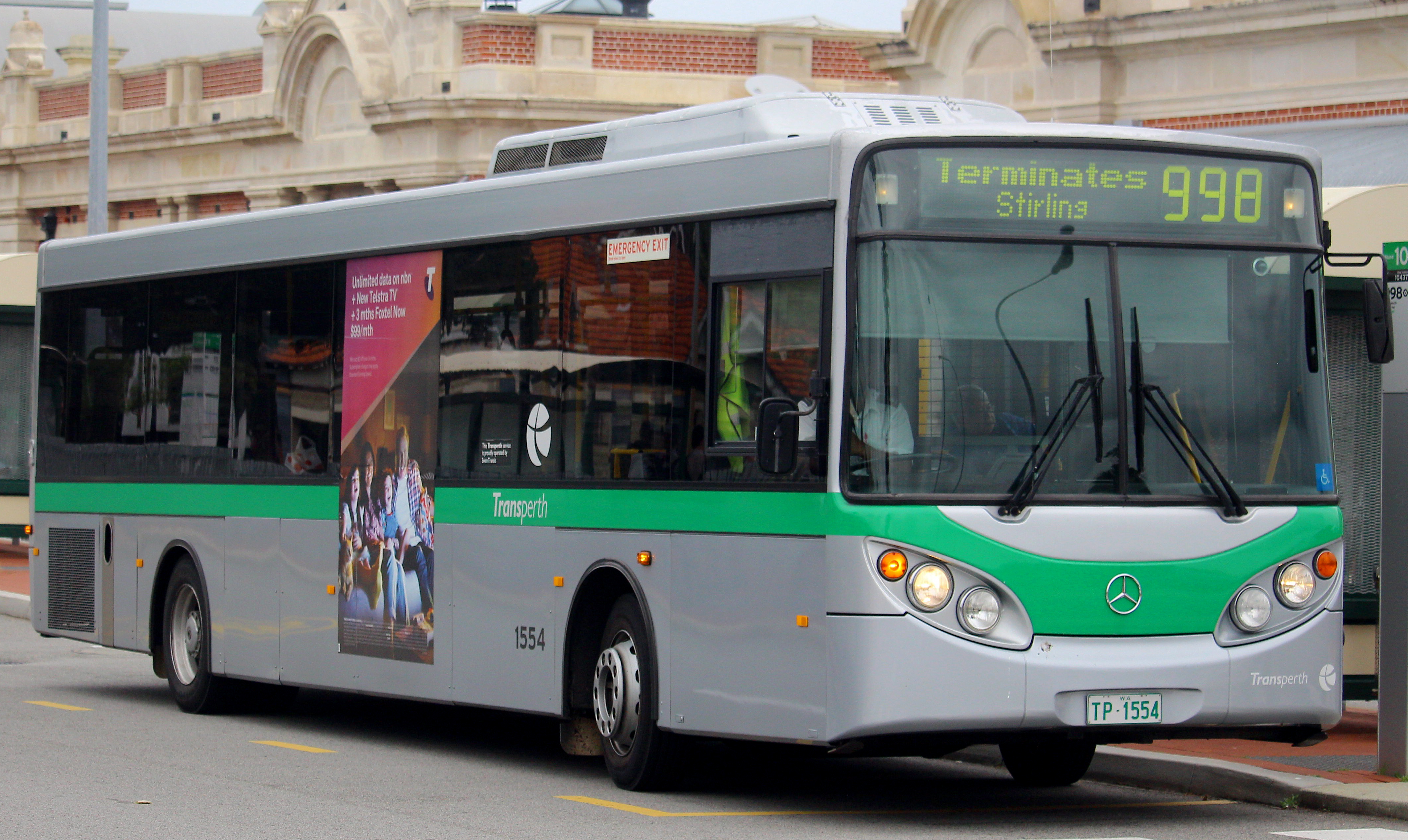 Transperth 2001 Volgren CR225L bodied Mercedes-Benz O405NH diesel operating a CircleRoute to Stirling station (998).